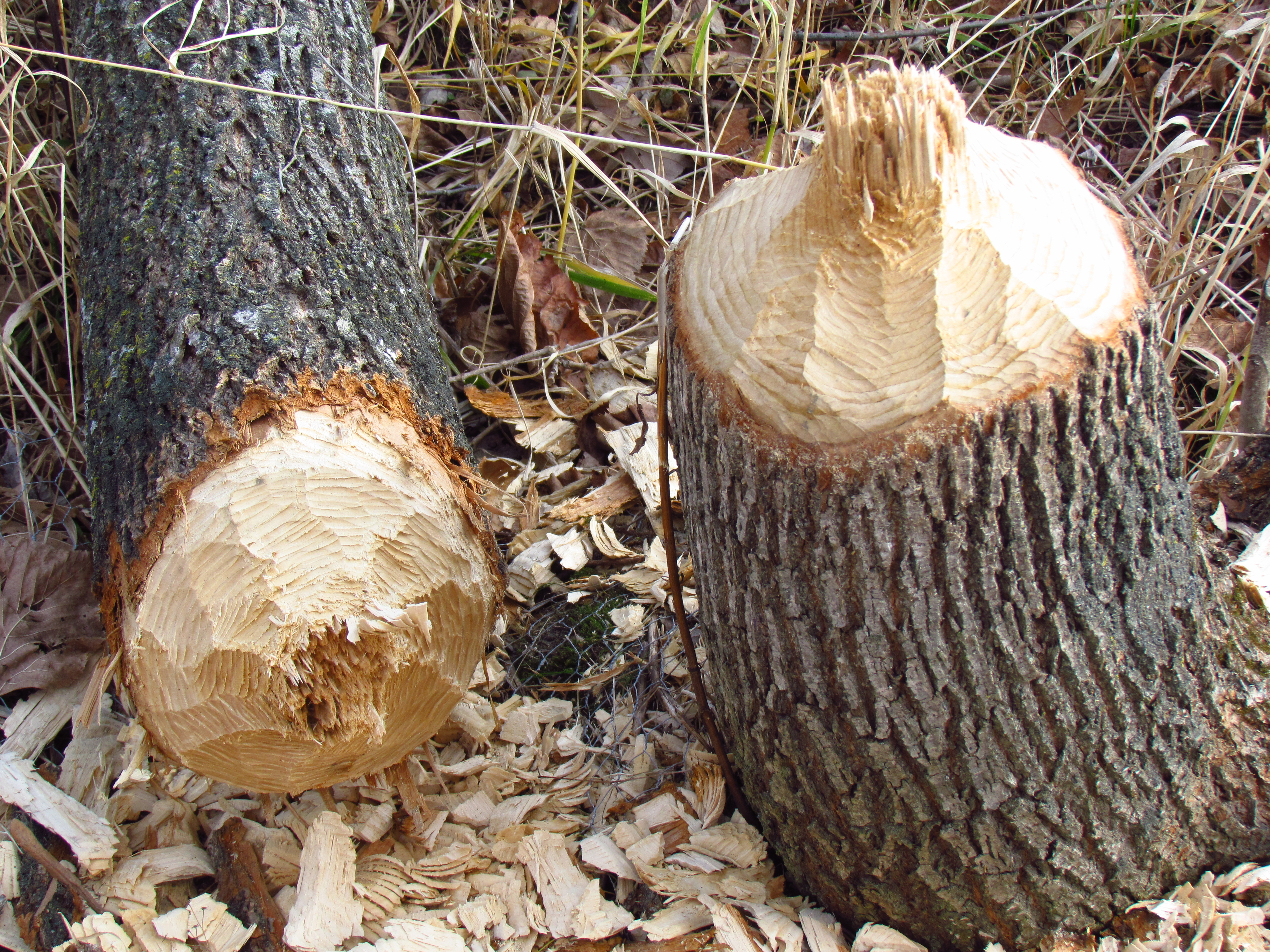 Tree recently felled by North American Beaver (Castor canadensis canadensis), Petrie Island Park, Ottawa, Ontario, Canada